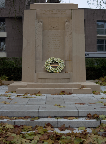 ref: PM_057410_B_Oudenaarde; Oudenaarde; Tacambaroplein; Oost-Vlaanderen; Belgium; herdenkingszuil voor Amerikaanse infanteriesoldaten die in de Eerste Wereldoorlog tijdens de Slag aan de Schelde op 1 november 1918 in Oudenaarde de Schelde overstaken; Cultural heritage; Europe/Belgium/Oudenaarde; Wiki Commons; Photographer: Paul M.R. Maeyaert; © Paul M.R. Maeyaert